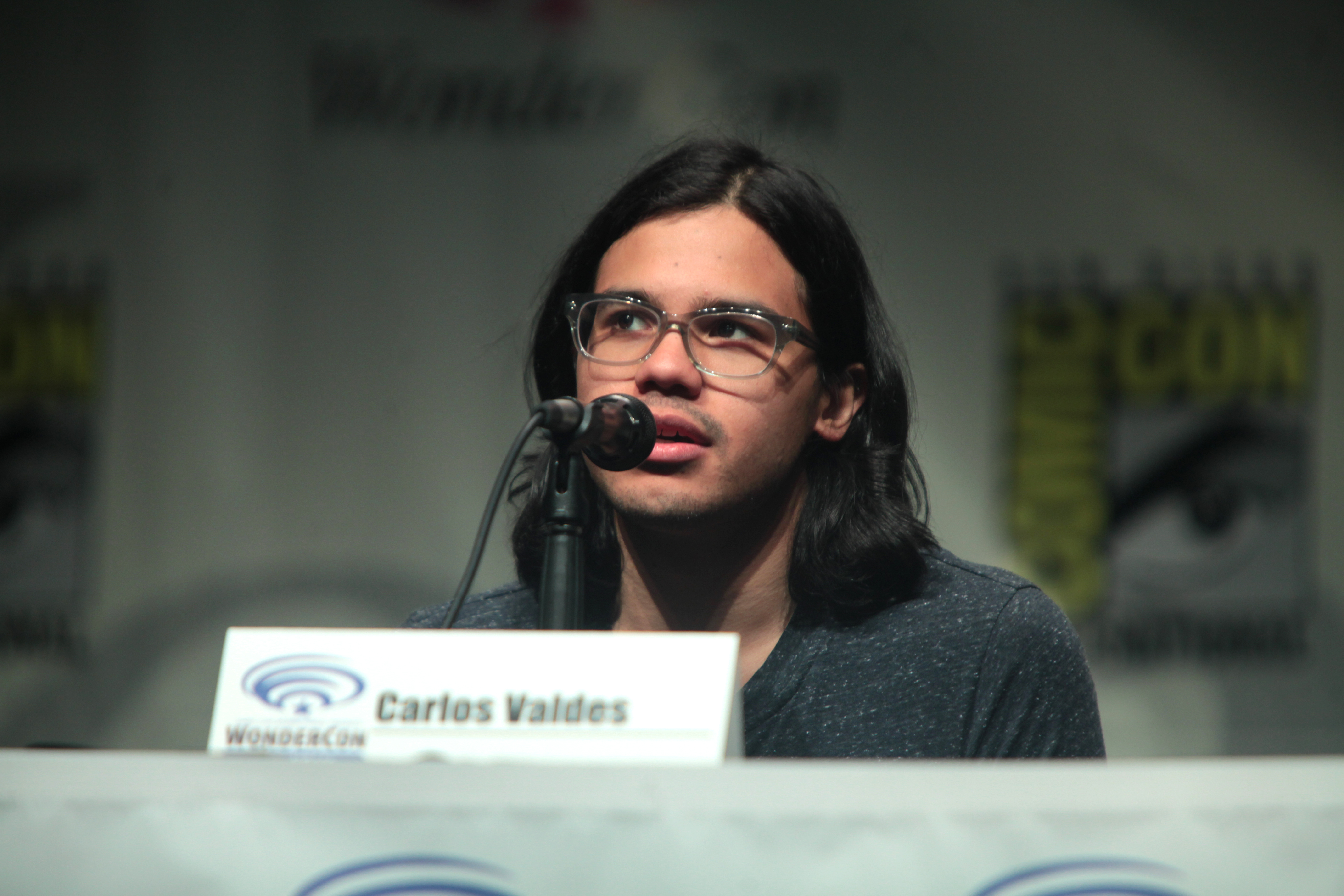 Carlos Valdes speaking at the 2015 Wondercon, for "The Flash", at the Anaheim Convention Center in Anaheim, California.